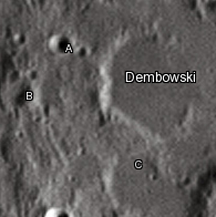 Dembowski lunar crater as seen from Earth with satellite craters labeled